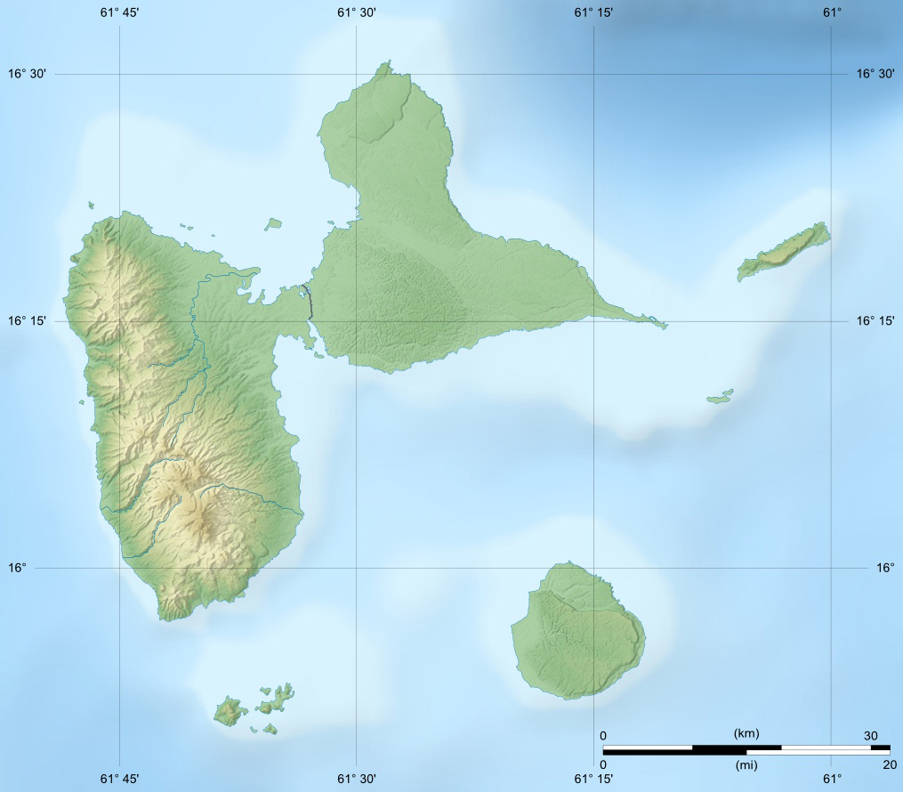 Blank physical map of the region and department of Guadeloupe, France, for geo-location purpose, with arrondissements boundaries.